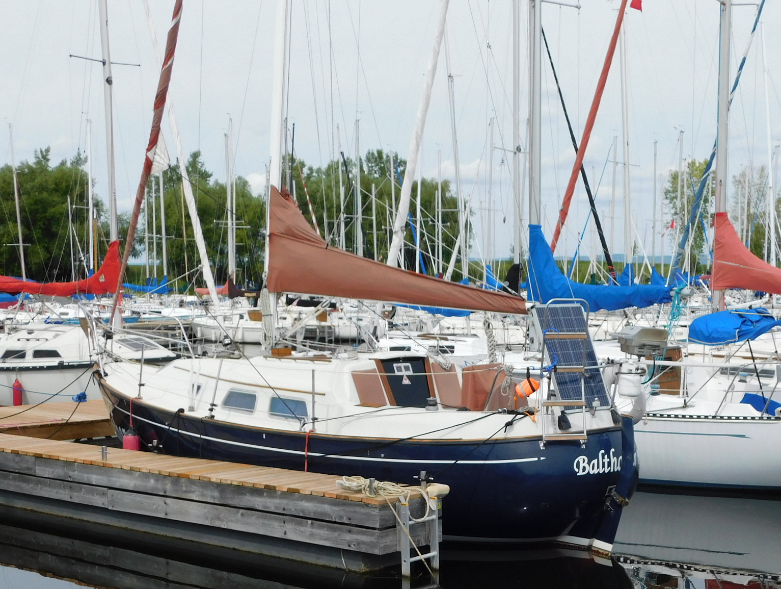 A Halman Horizon sailboat named Balthazar.